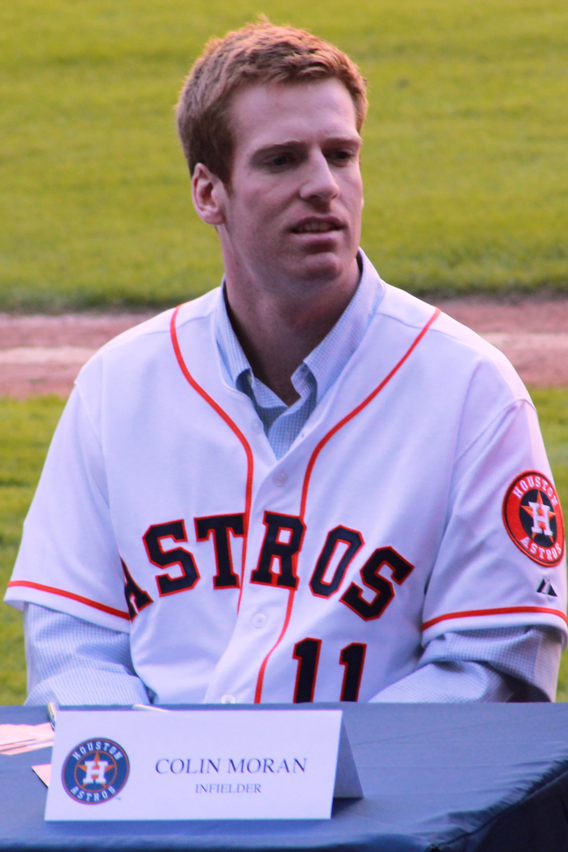 Professional baseball player Colin Moran at a Houston Astros event in January 2015.